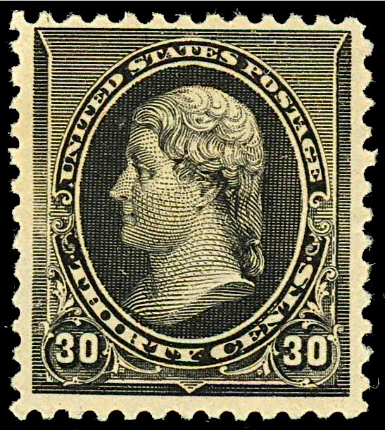 US Postage stamp: Thomas Jefferson, Issue of 1890, 30c, black